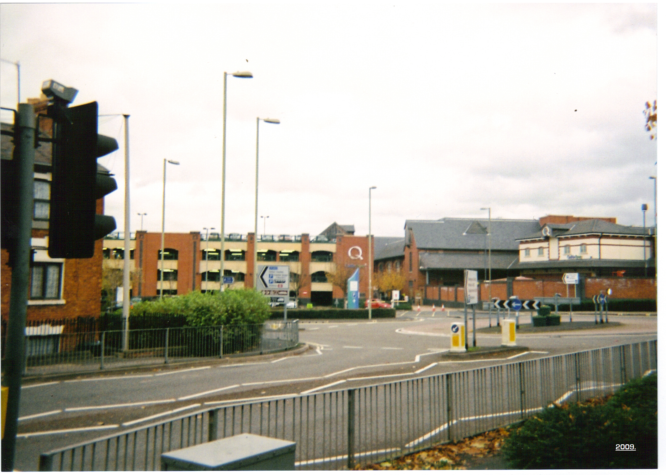 I took this picture of the Castle Quay shopping centre Banbury town my self. I here by release it in to the public domain.